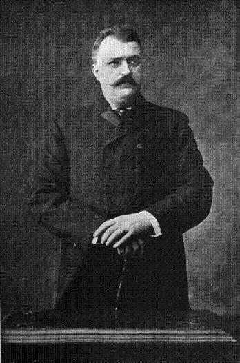 Portrait of Speaker of the New York State Assembly S. Frederick Nixon